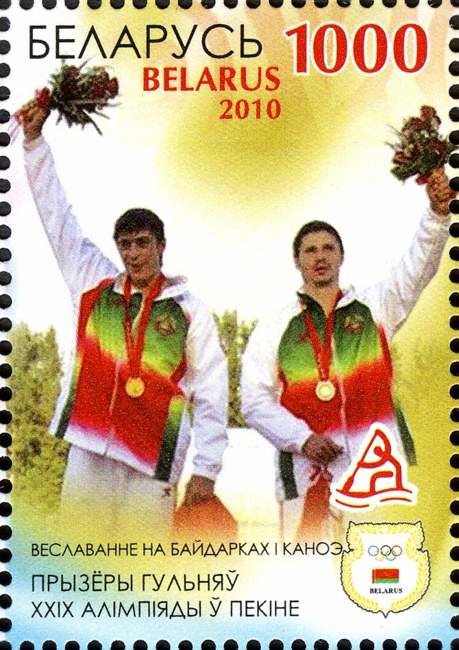 Medal Winners at XXIX Olympic Summer Games in Beijing - Rowing and Canoeing